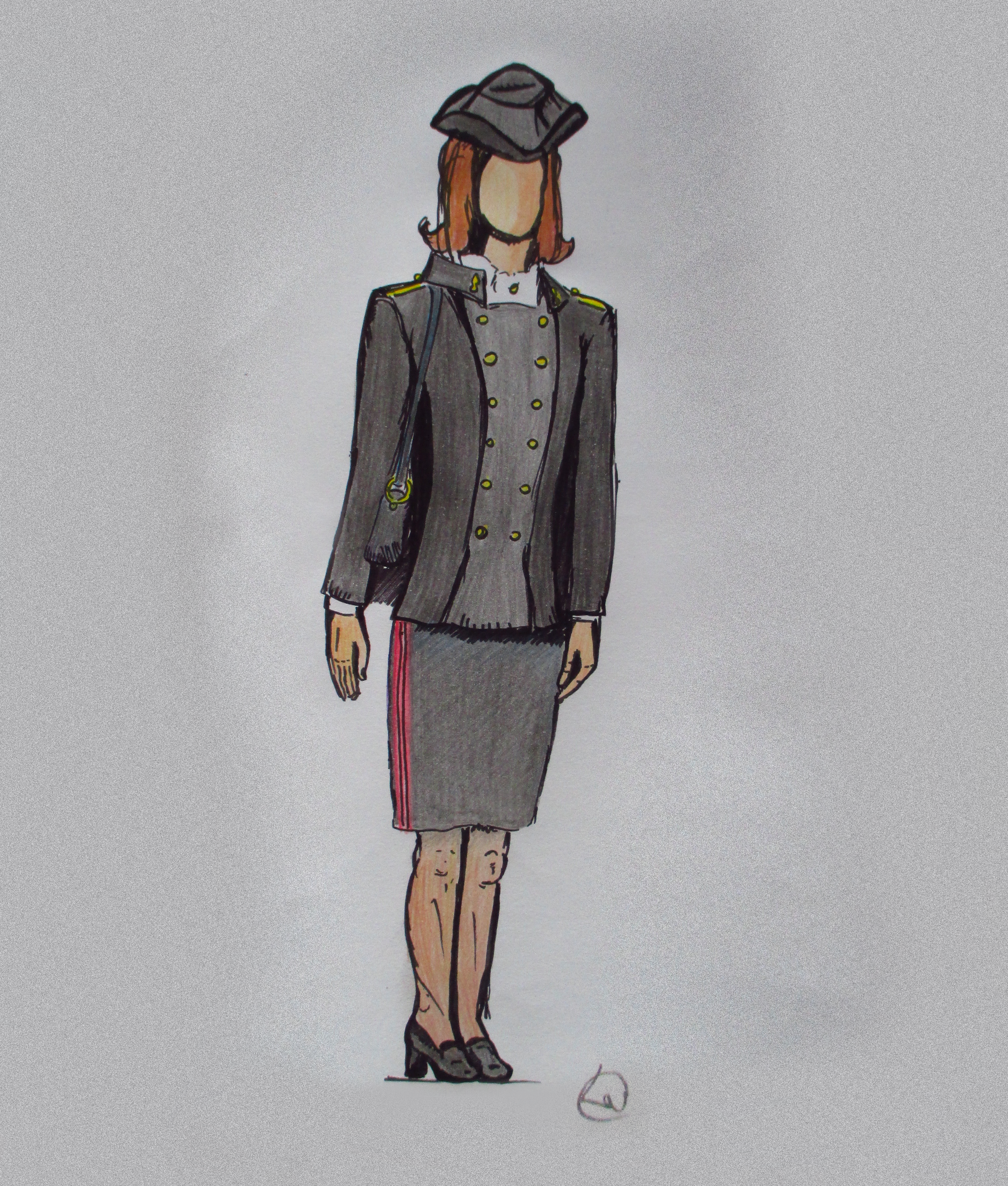 École polytechnique uniform (1972), by Hélène Clavier.